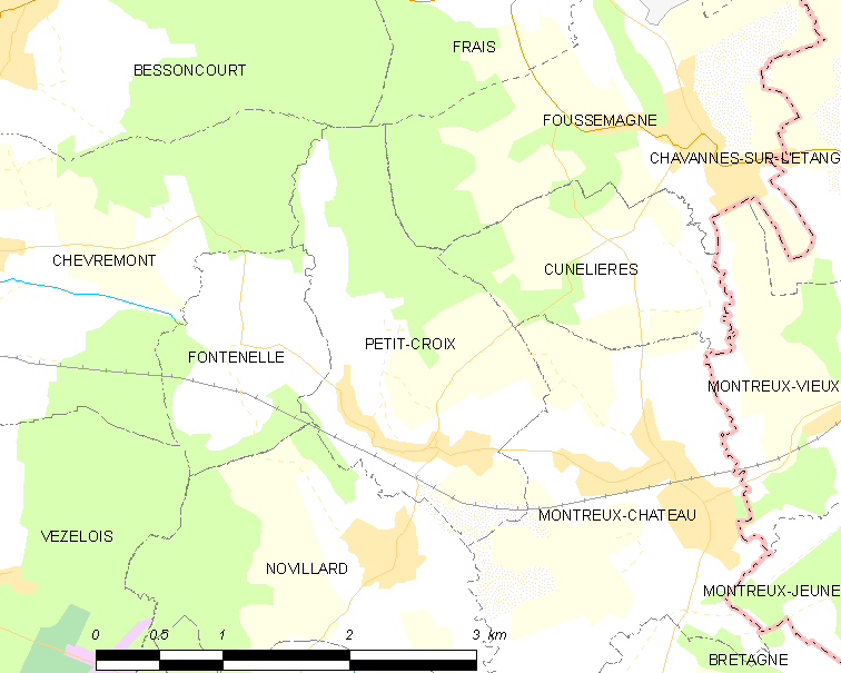 Map of French municipality Petit-Croix